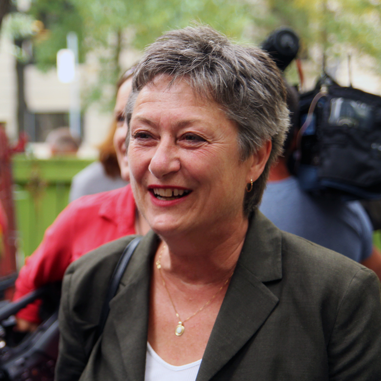 Toronto city councillor Janet Davis at a campaign event for mayoral candidate Olivia Chow.